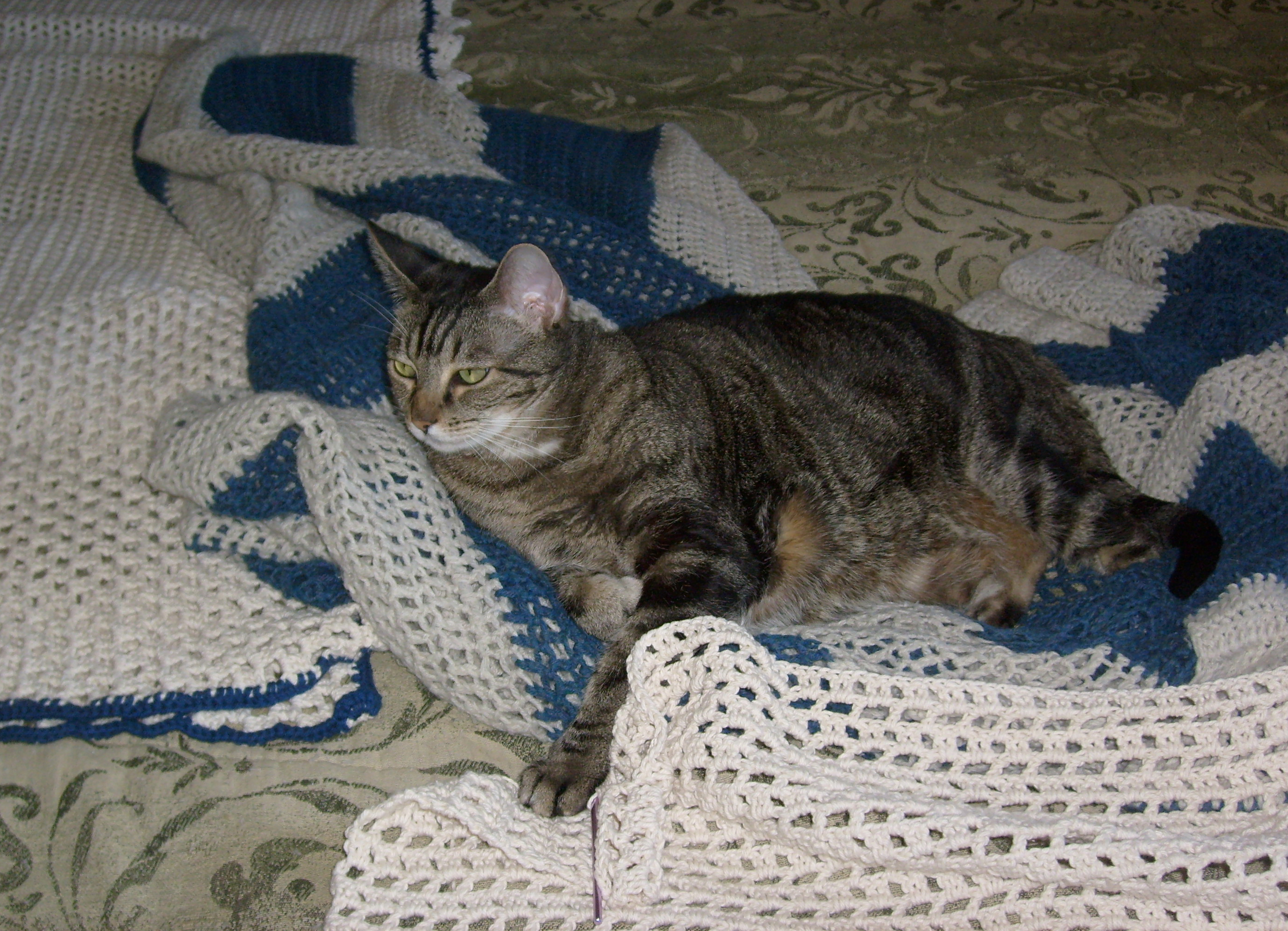 Samantha (spokesmodel for Not the Wikipedia Weekly) with four crocheted afghans in lambswool and cotton.